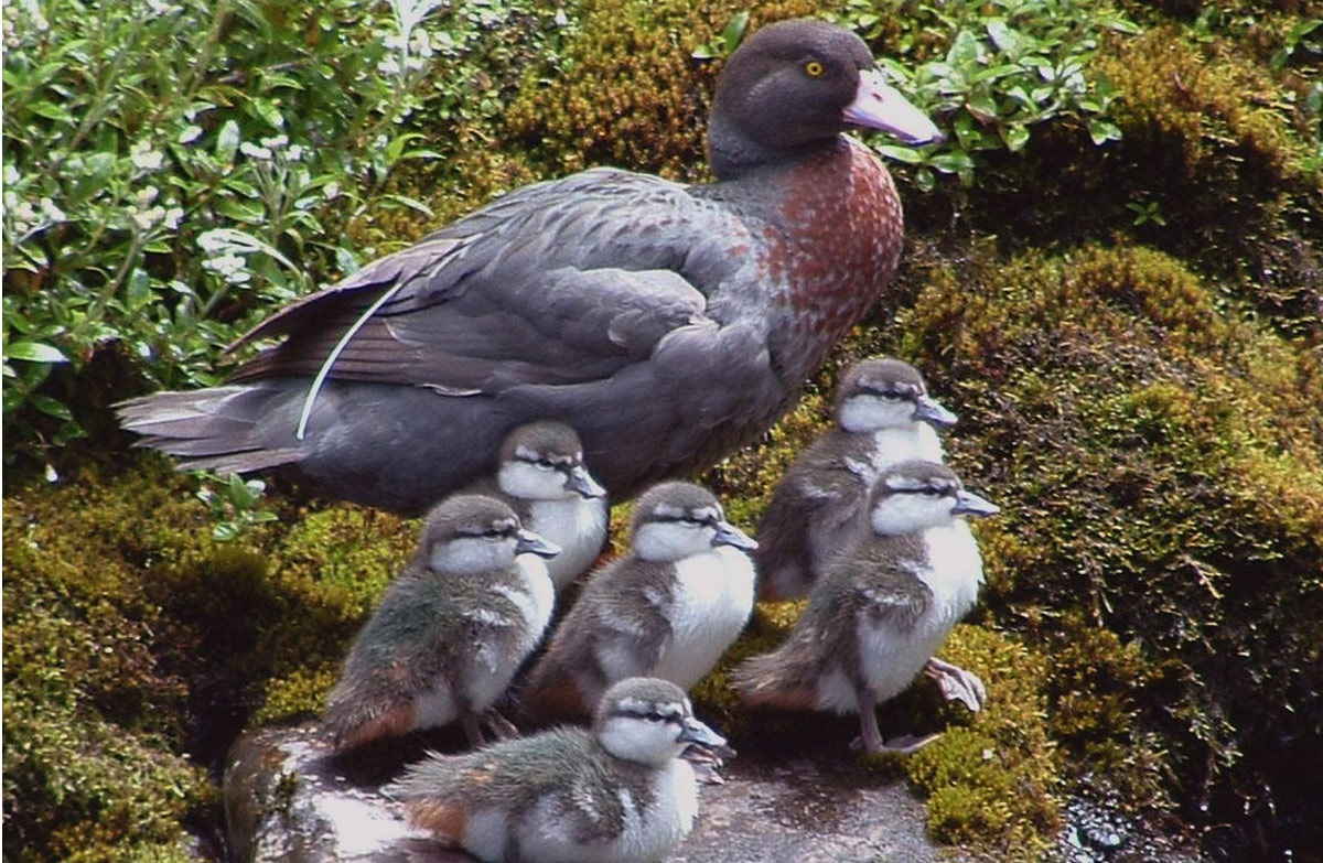 Whio adult and ducklings, Mangatepopo Tongariro National Park